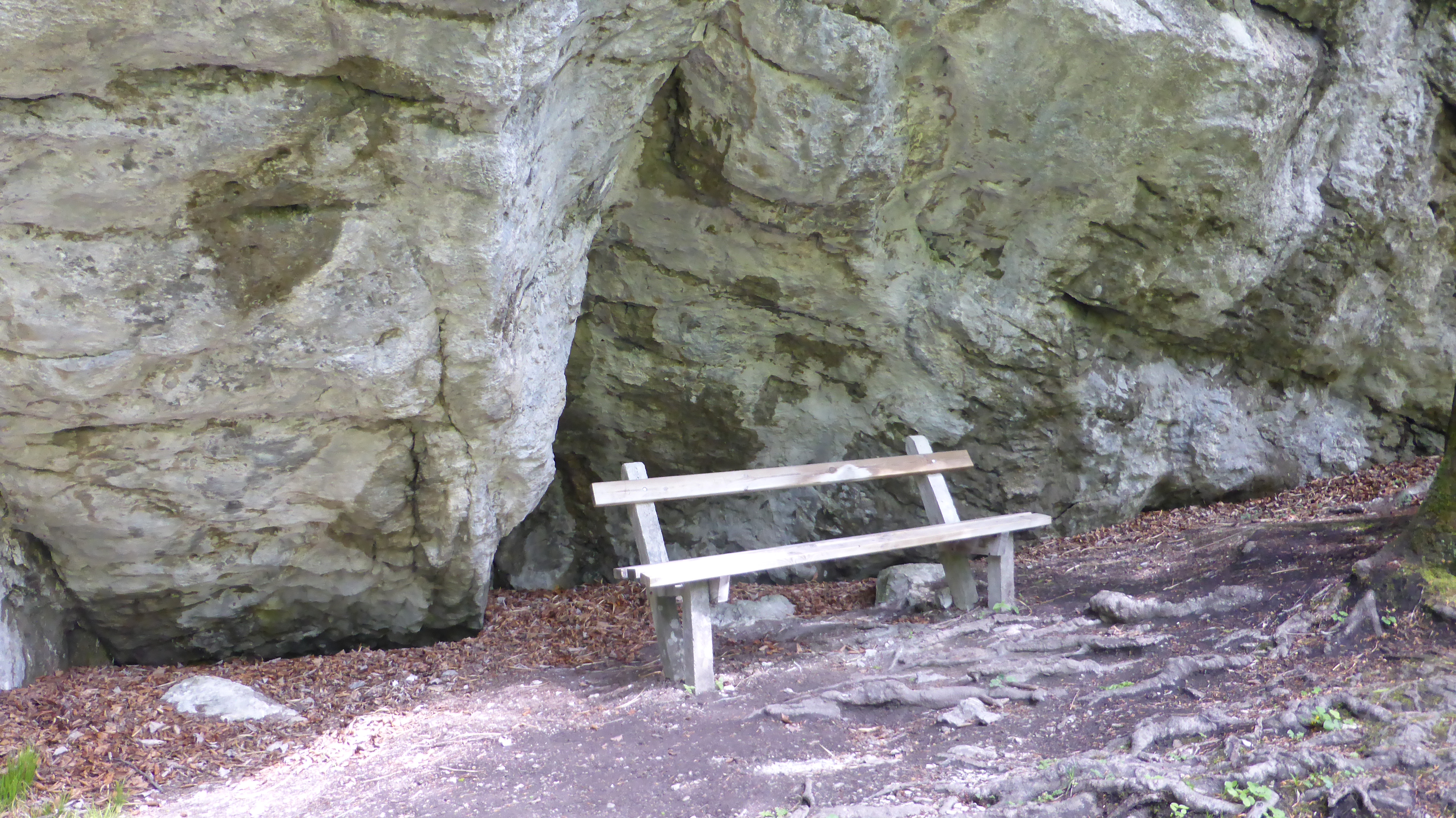 Shelter for hunters in prehistoric times at Pass Lueg, municipality Golling an der Salzach in the Austrian state of Salzburg